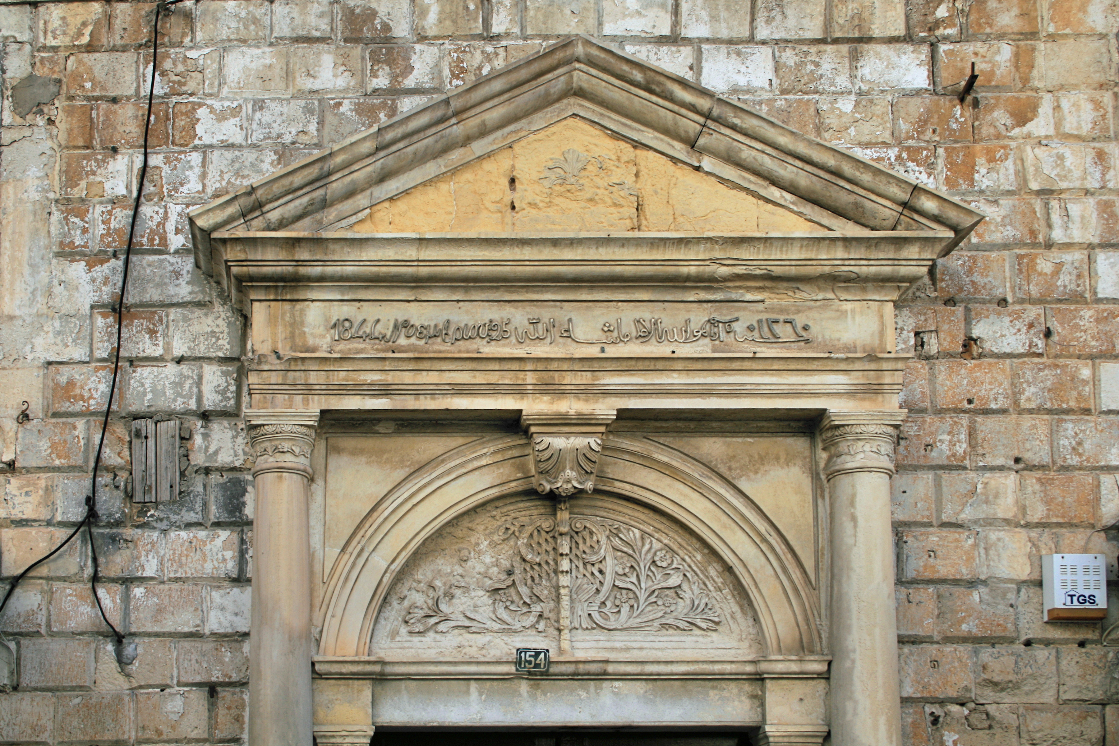 Rethymno on the island of Crete - Old portal. Translation: From left to right in greek “1844 November 25”, From right to left in turkisch, written with arabic letters.